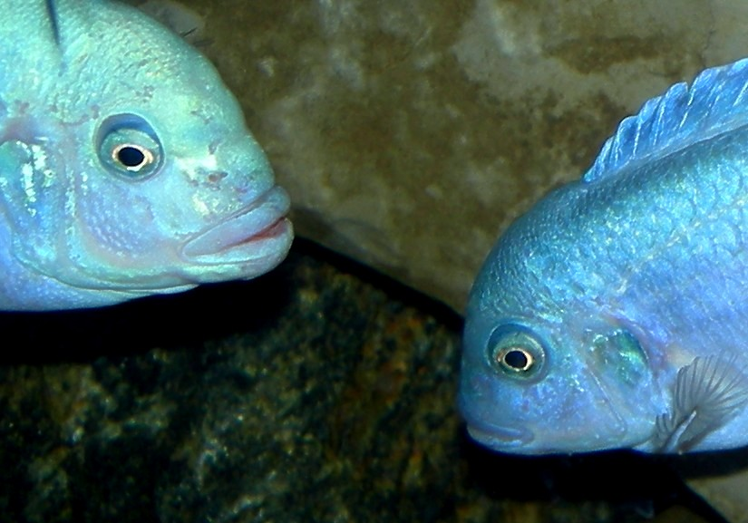 male on the left, female on right. Maylandia callainos (aka Pseudotropheus zebra 'cobalt')